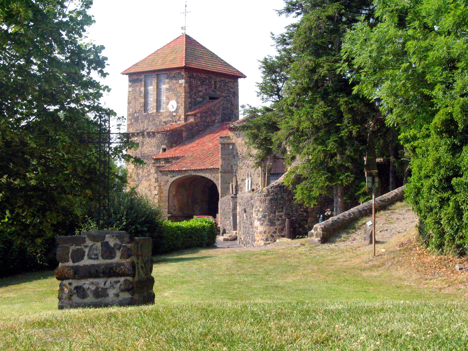 Usson, Puy-de-Dôme (France), the church of Saint-Maurice (Romanesque church restored to XIV, XV and XVI centuries).